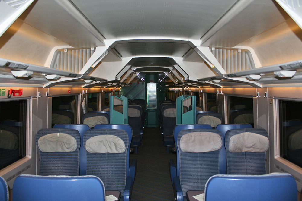 Interior of a 2nd class car on an ICE 1 high-speed train